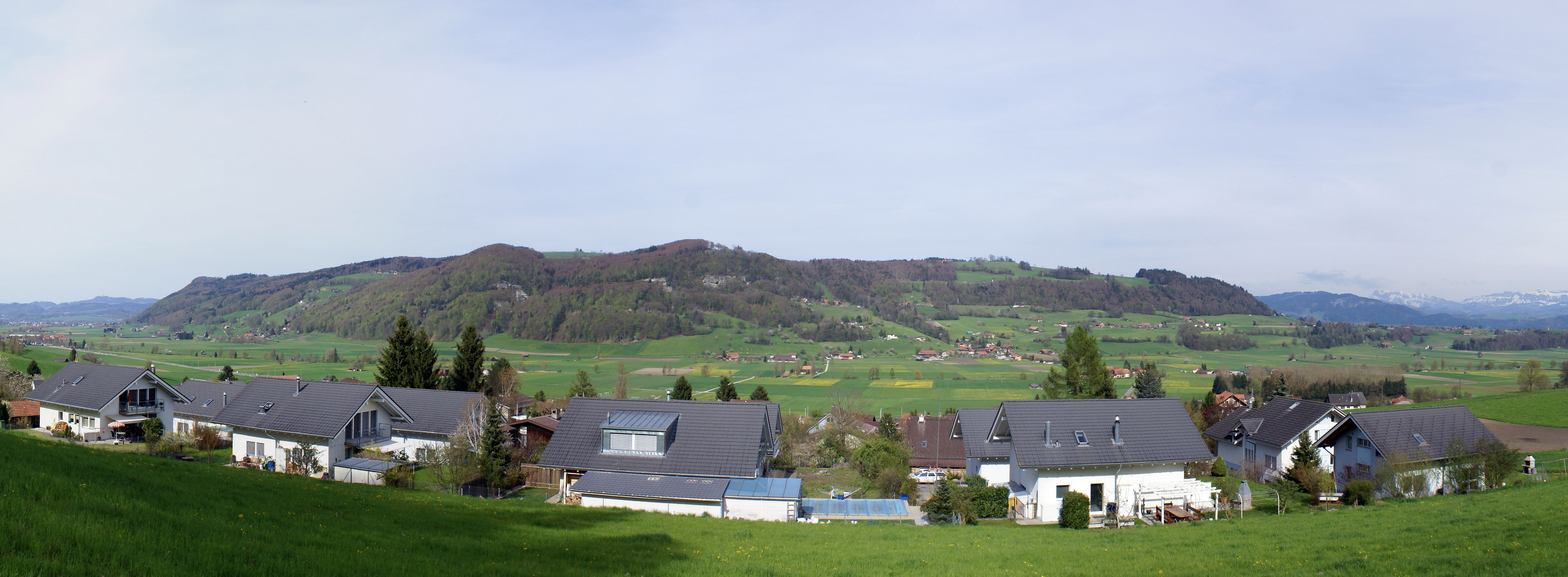 The Belpberg and the northern part of the Gürbe valley, as seen from Rümligen (Switzerland).